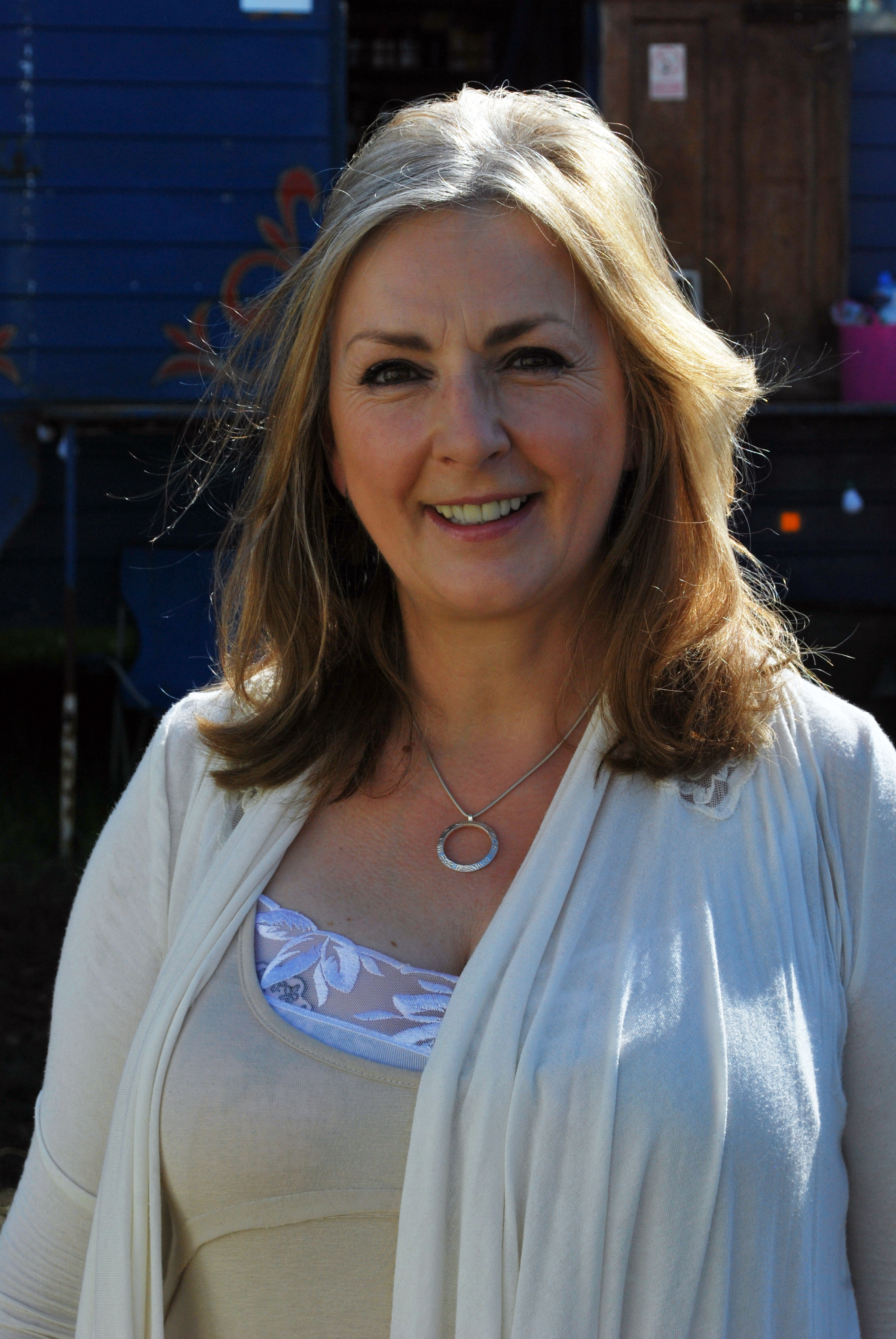 Moya Brennan, taken shortly after her gig at the solar powered Crossaint Neuf Stage at Glastonbury 2011